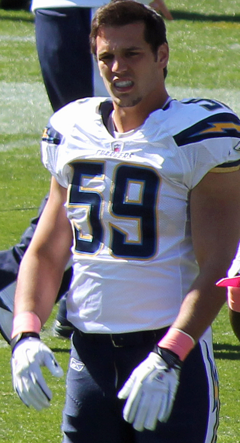 Andrew Gachkar, a player on the National Football League.